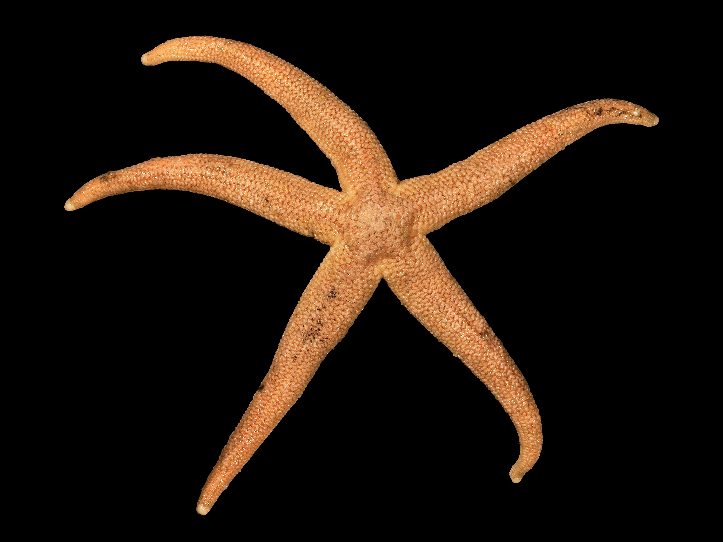 Rosy Starfish from the Celtic Sea, south west of Lundy.